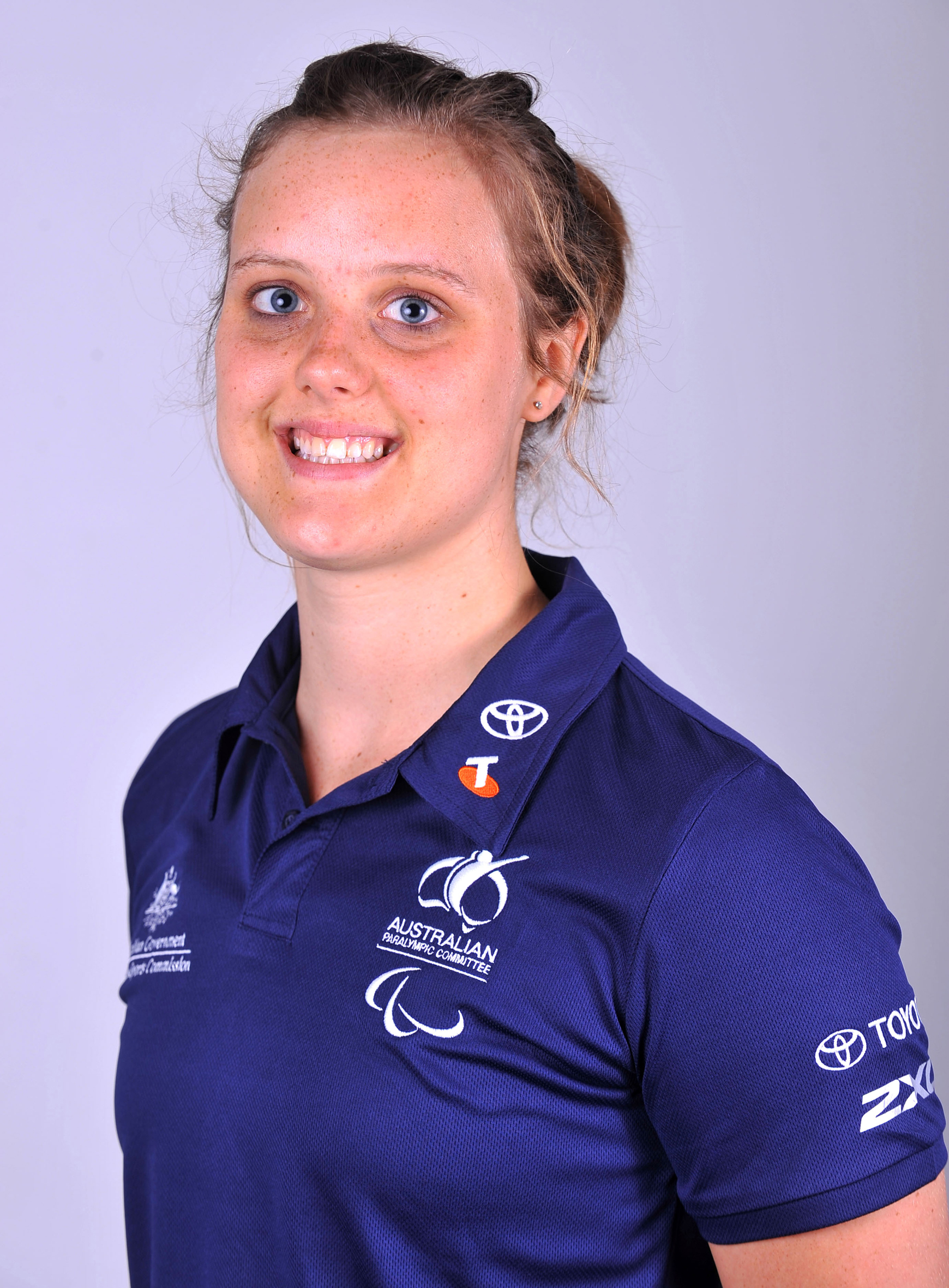 Portrait of Australian swimmer Ellie Cole, 2012 Australian Paralympic (shadow) Team athlete